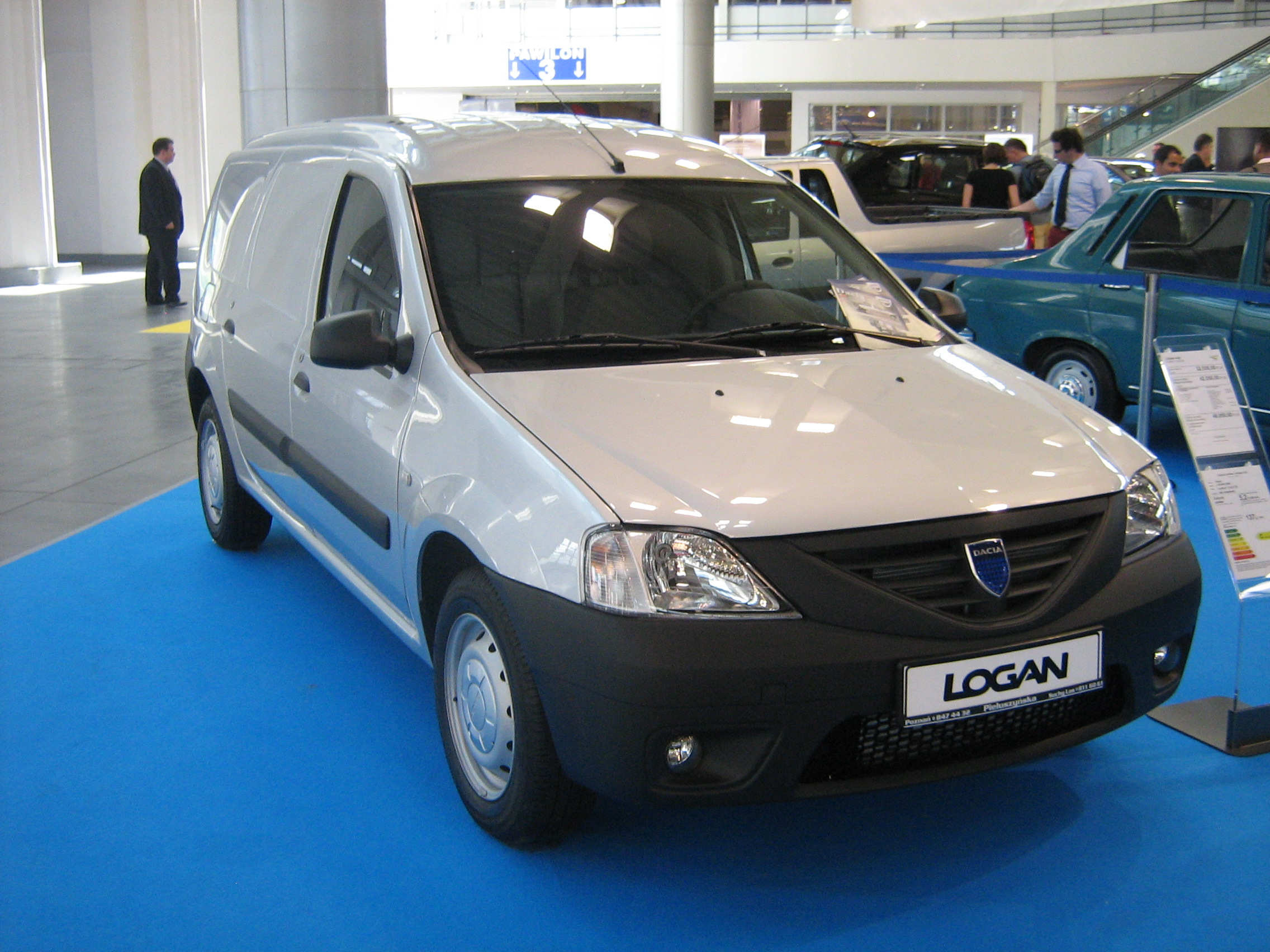 Dacia Logan Van - PSM 2009 in Poznan.